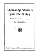 Cover for the book Schwedische Stimmen zum Weltkrieg by german historian Friedrich Stieve.